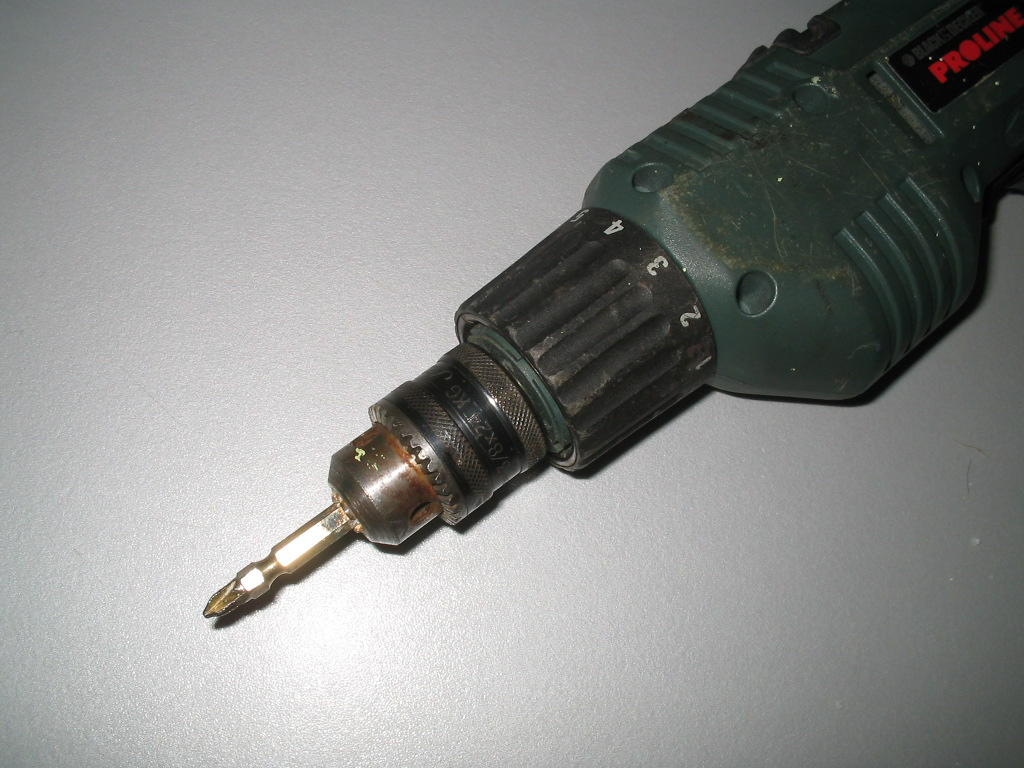 Electric drill with Phillips screwdriver bit fitted in chuck. schroefboormachine